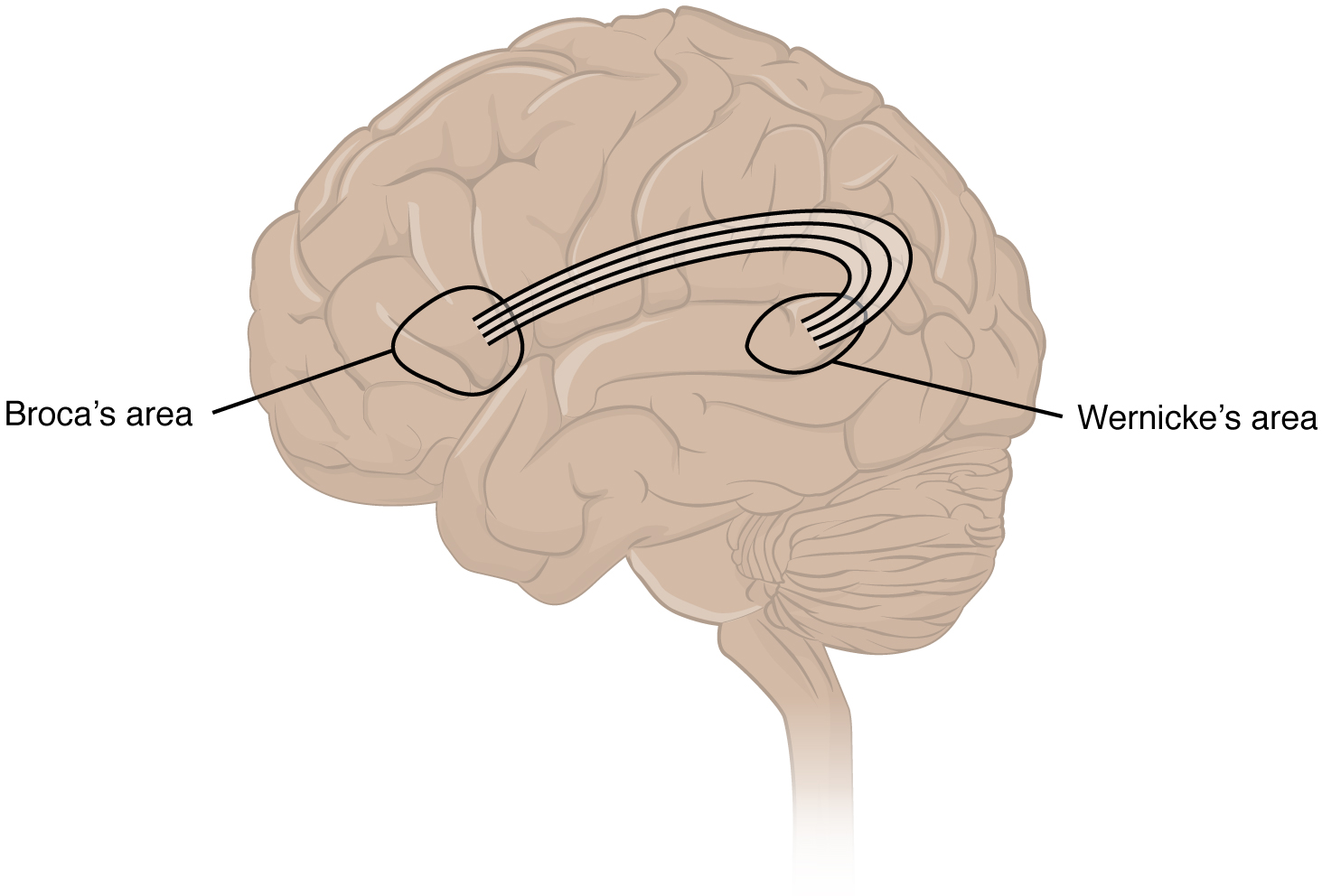 Illustration from Anatomy & Physiology, Connexions Web site. Jun 19, 2013.